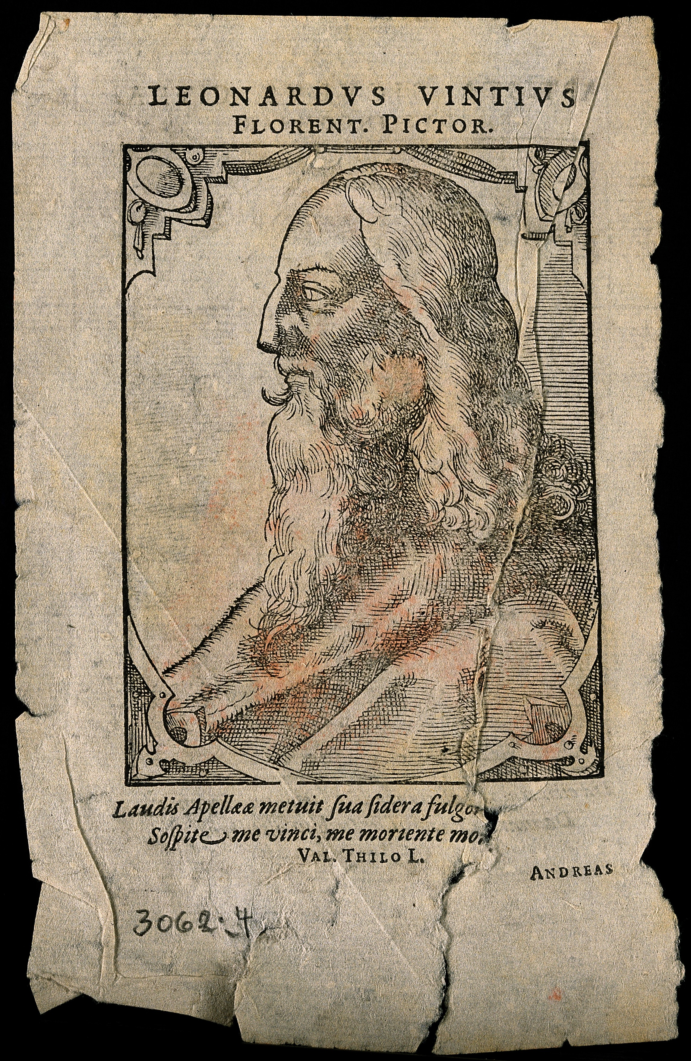 Leonardo da Vinci. Woodcut by T. Stimmer, 1589, after the sitter. Iconographic Collections Keywords: portrait prints; woodcuts; Tobias Stimmer; Leonardo Da Vinci